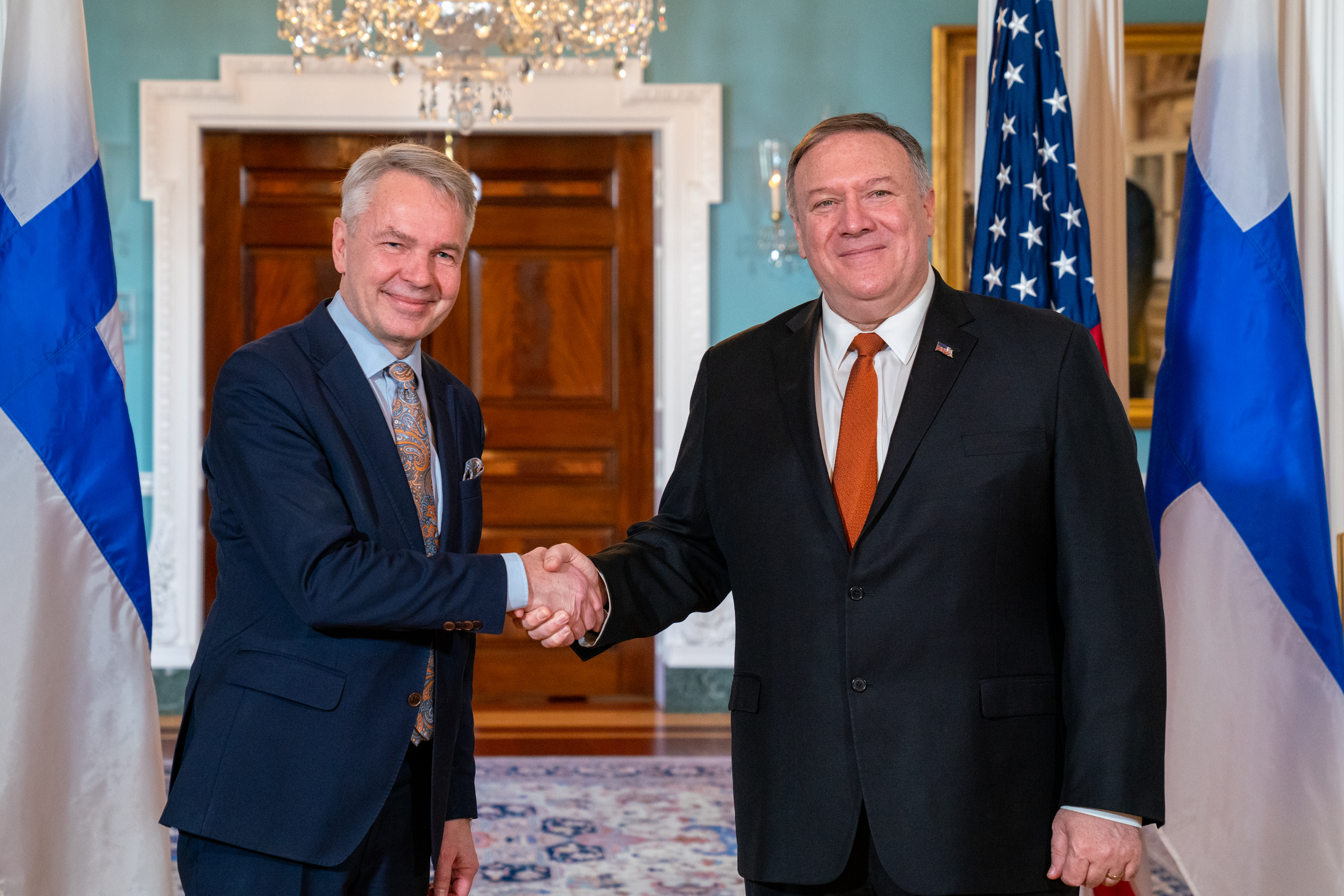 Secretary of State Michael R. Pompeo meets with Finnish Foreign Minister Pekka Haavisto, at the Department of State, on February 27, 2020. [State Department Photo by Ron Przysucha/ Public Domain]